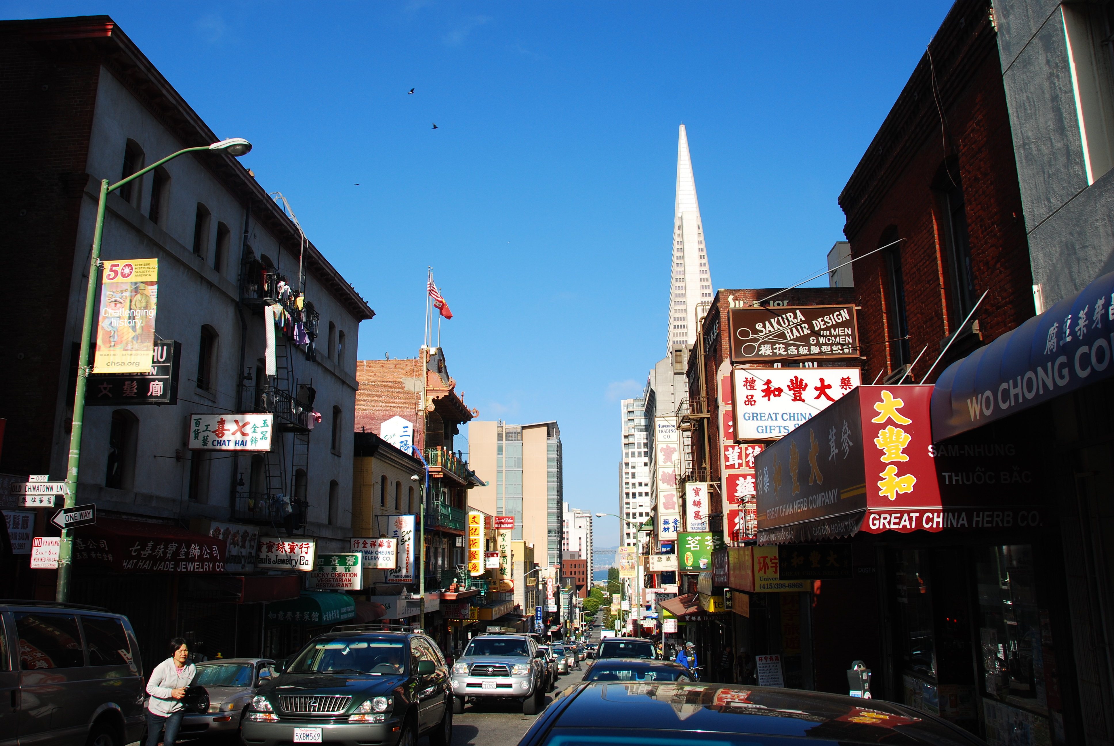 Washington Street looking east from Chinatown, San Francisco, California.